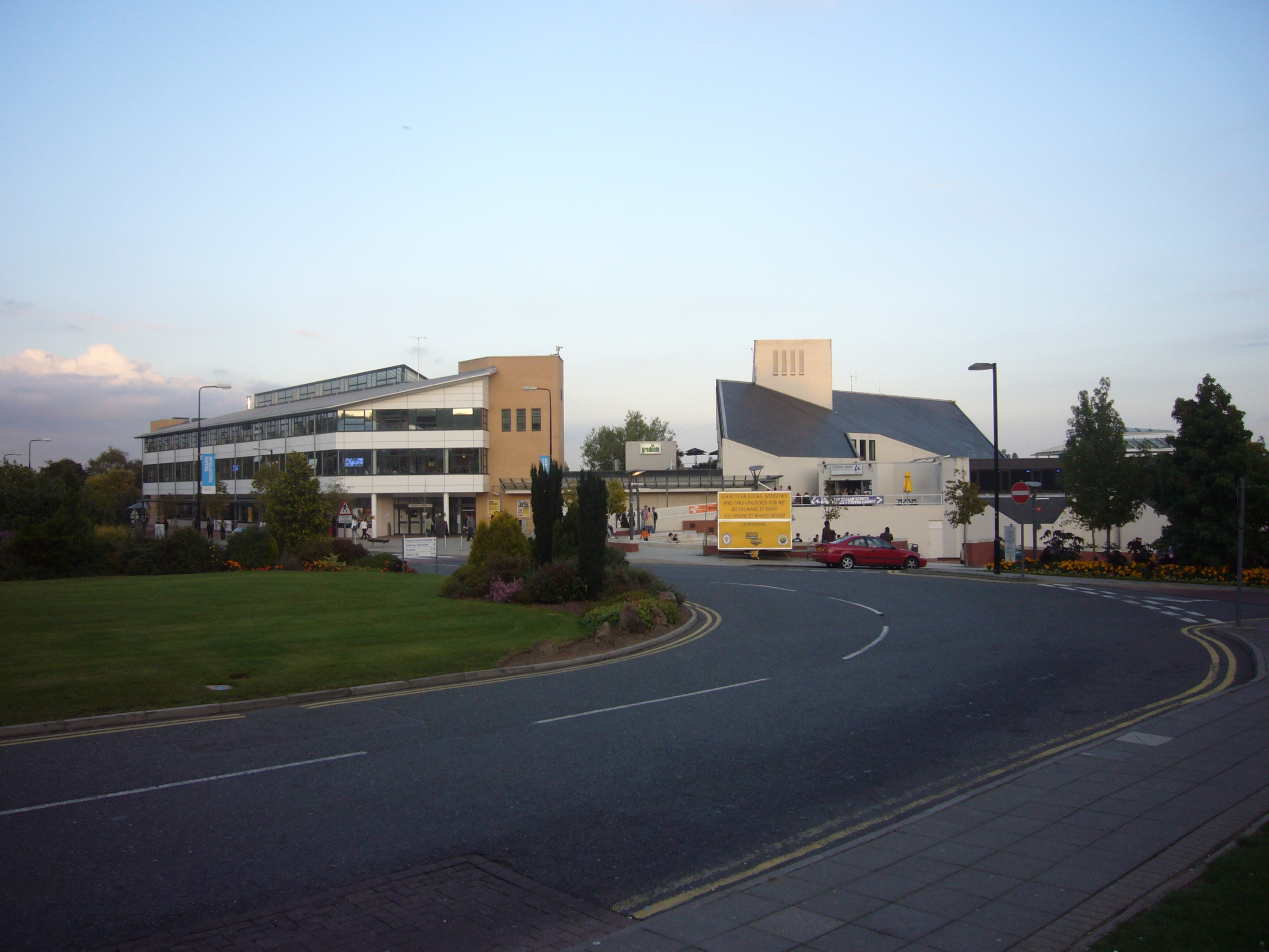 The University of Warwick Student Union, Coventry, England